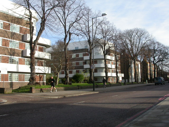 Clapham Park, Oaklands Estate 1930s ex-GLC estate on Poynders Road; a conservation area.